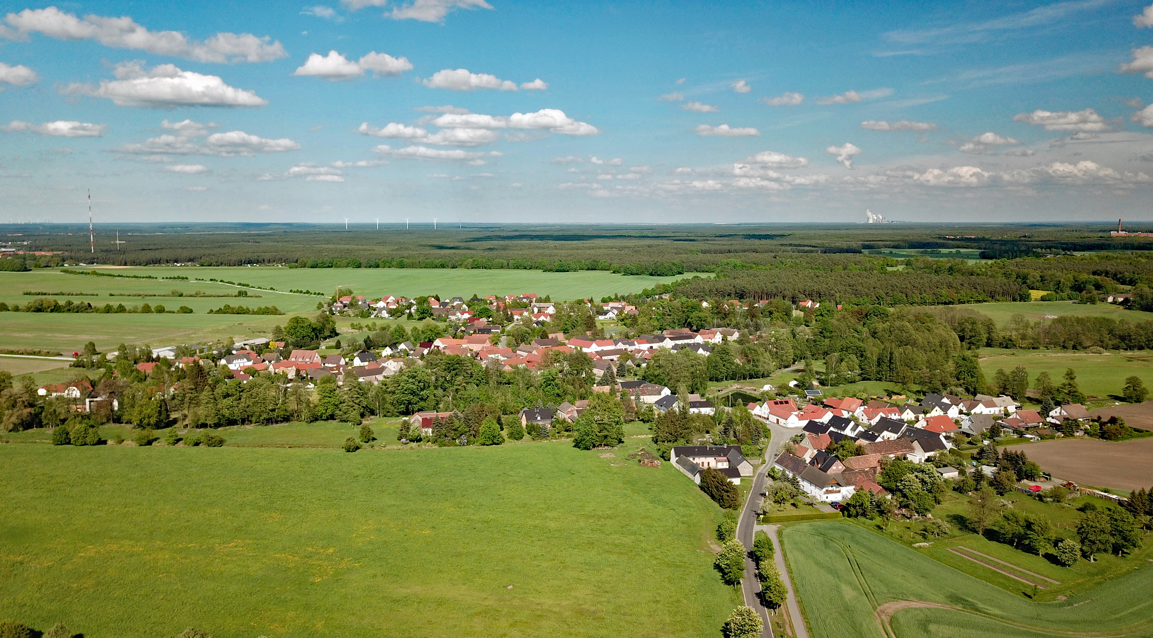 Spohla (Wittichenau, Saxony, Germany) Hornjoserbsce: Powětrowy wobraz Spalow